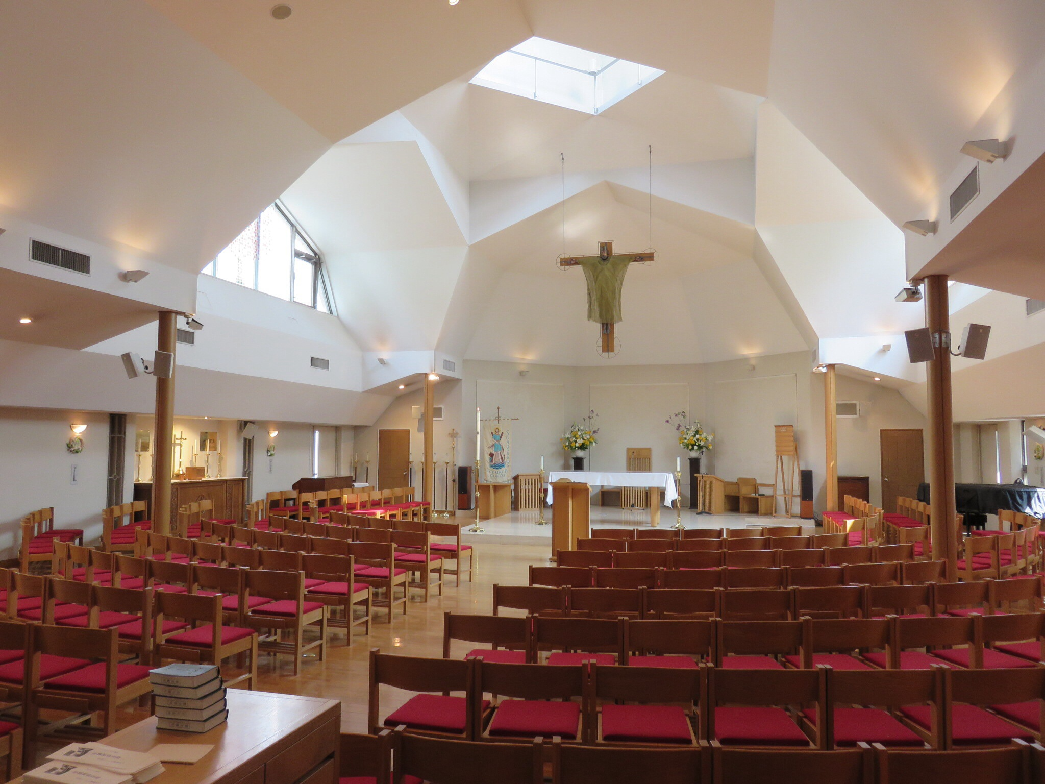 St. Andrew's Cathedral, Tokyo, Interior, Spring 2014